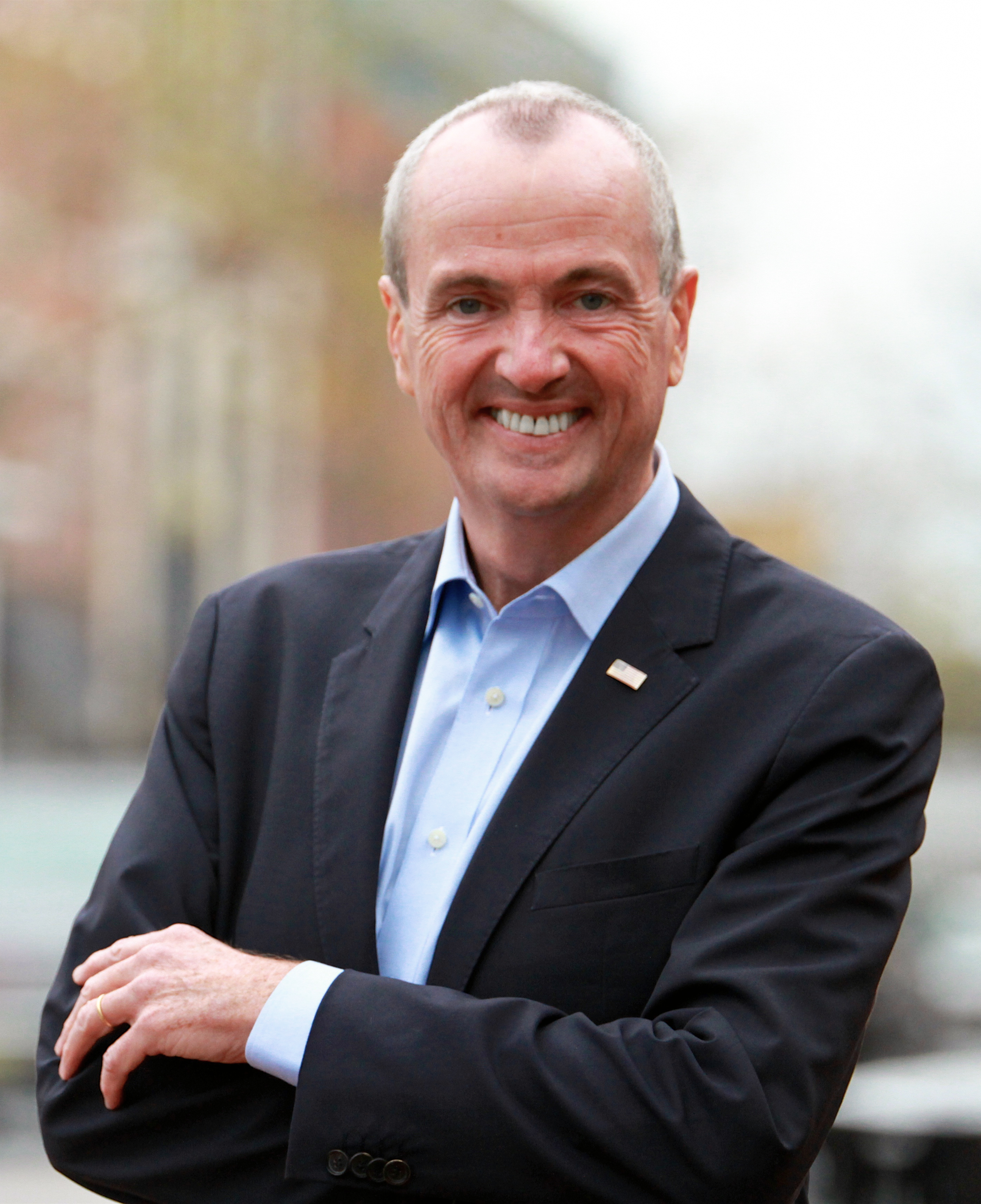 Phil Murphy for Governor